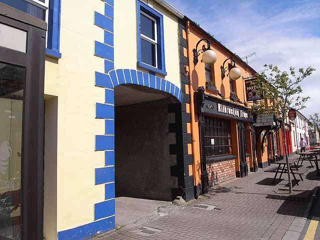 Kilbracken Arms, Carrigallen, near to Carraig Alainn and Mullanadarragh, Leitrim, Ireland. This fine old coaching inn stands on the Main Street of the small town of Carrigallen in southern County Leitrim.